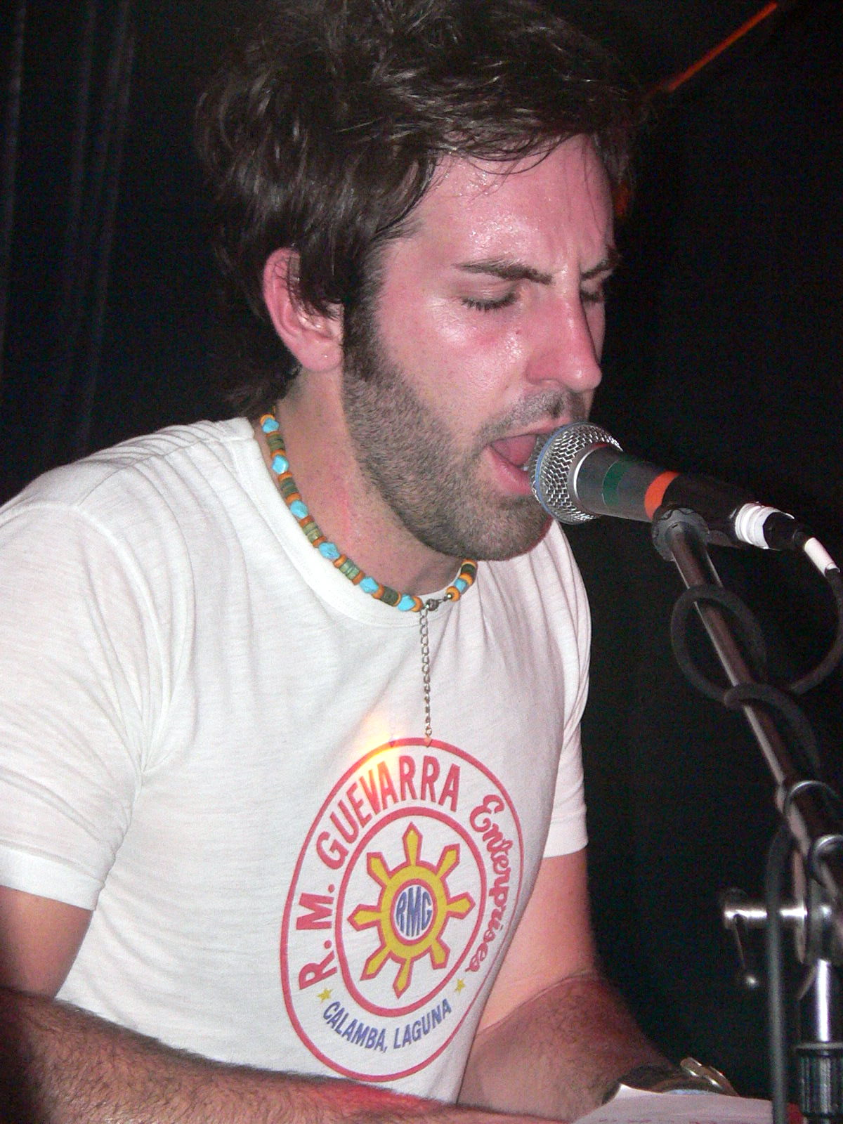 American singer Josh Kelley singing in Nashville, Tennessee in March 2007